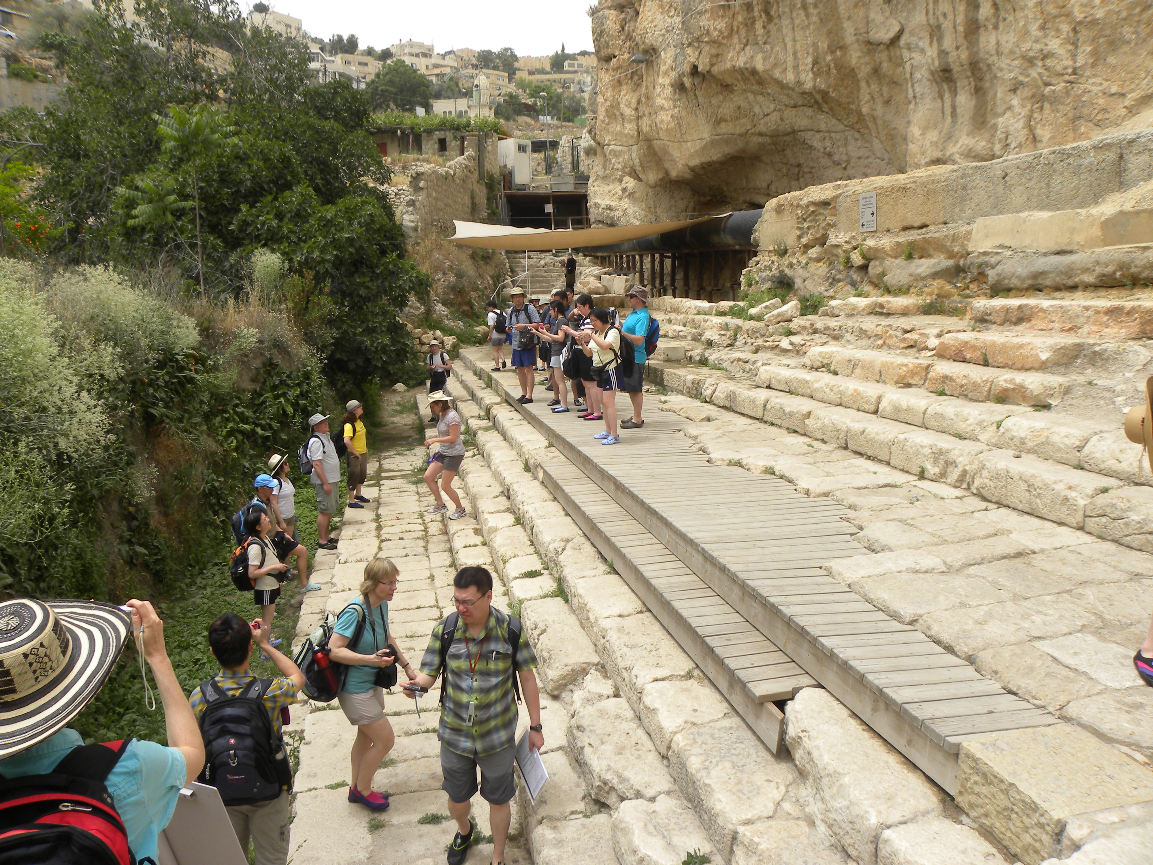 With the group from Tyndale seminary. Jerusalem